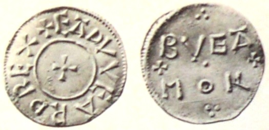 Coin of King Edward the Elder